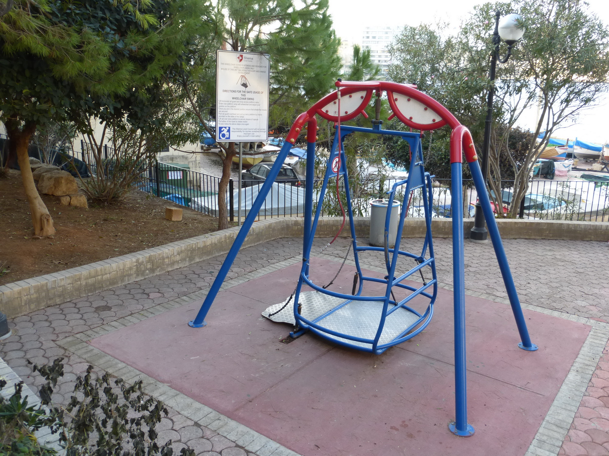 Wheelchair Swing on a playground in Sliema (Malta)